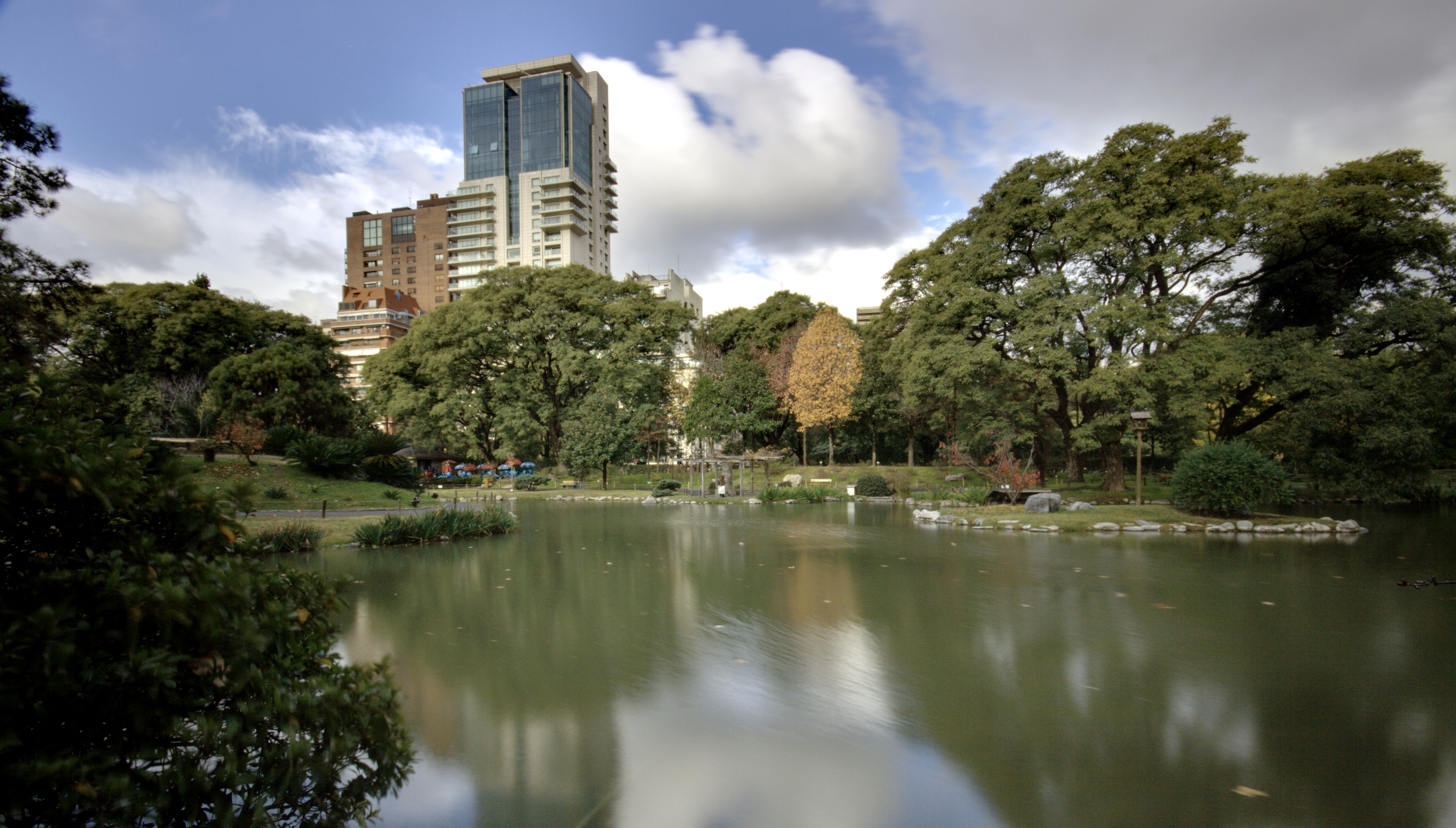 Japanese garden, Buenos Aires, Argentina.